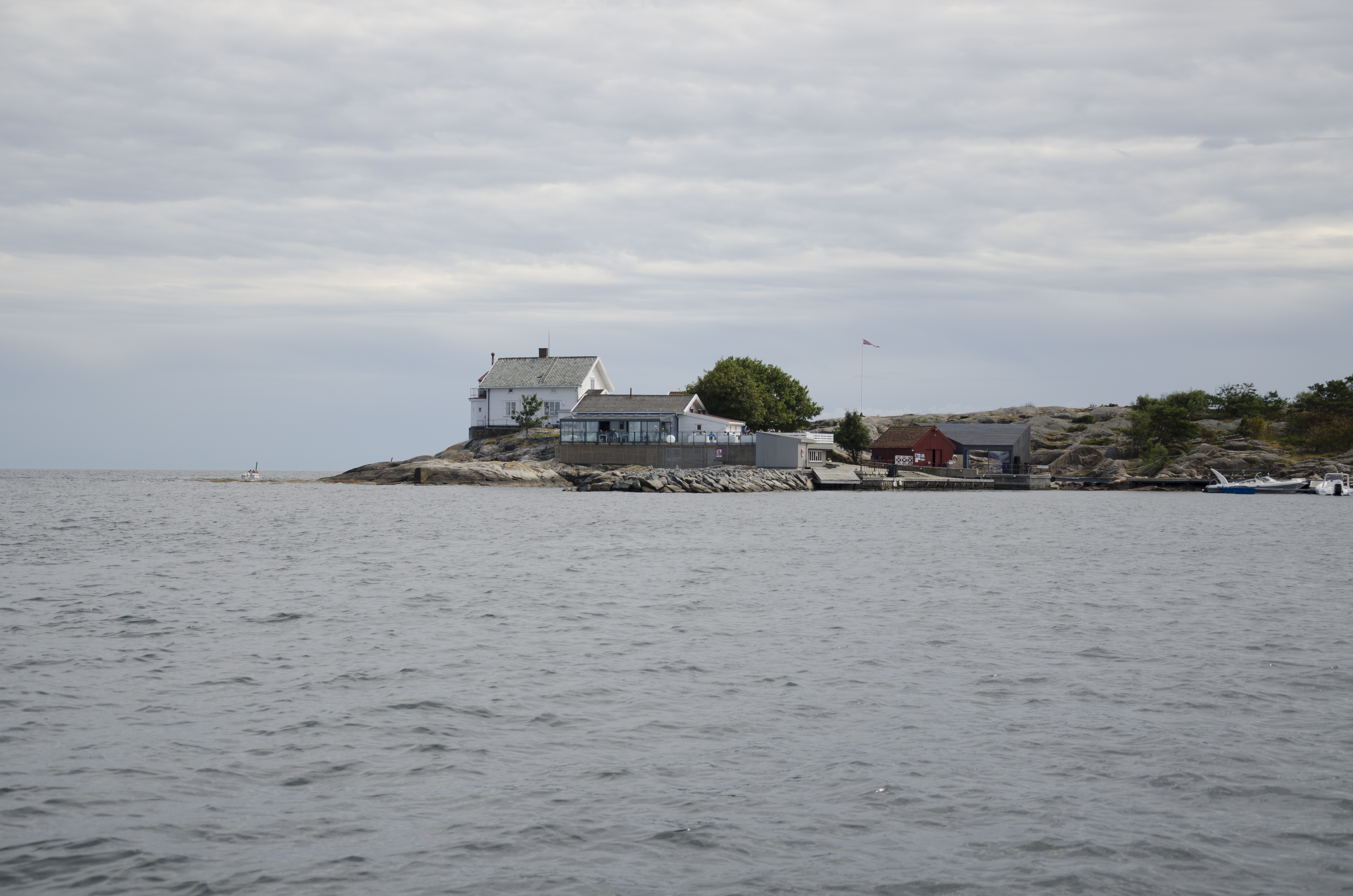 Stangholmen just south of Risør, Norway. The island has a restaurant accessible only by boat.